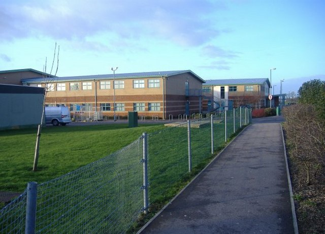 Wootton Bassett school A large comprehensive, to the north of the town centre.